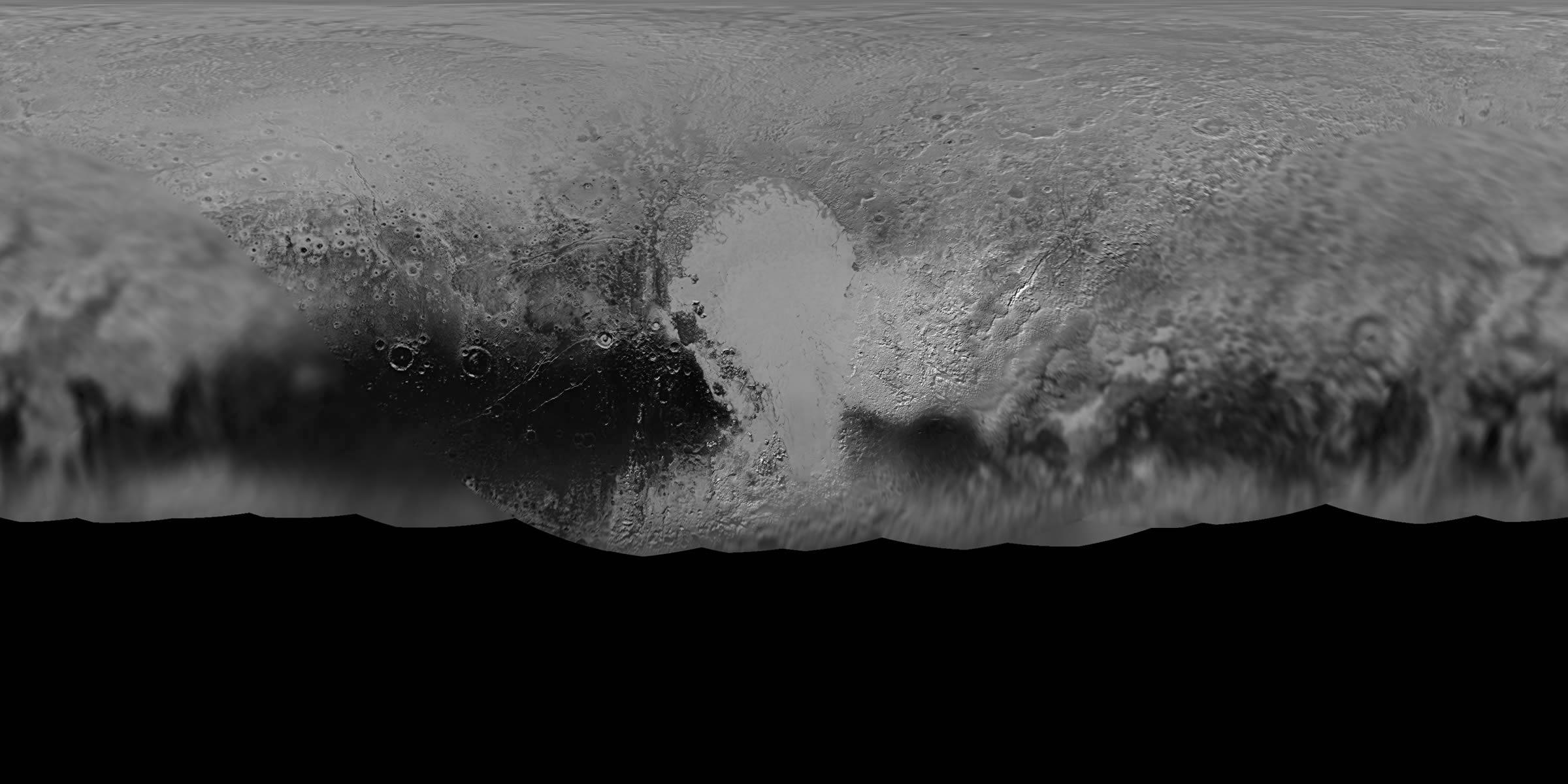 PIA20658: Pluto: A Global Perspective NASA's New Horizons mission science team has produced this updated panchromatic (black-and-white) global map of Pluto. The map includes all resolved images of Pluto's surface acquired between July 7-14, 2015, at pixel resolutions ranging from 18 miles (30 kilometers) on the Charon-facing hemisphere (left and right edges of the map) to 770 feet (235 meters) on the hemisphere facing New Horizons during the spacecraft's closest approach on July 14, 2015 (map center). The non-encounter hemisphere was seen from much greater range and is, therefore, in far less detail. The latest images woven into the map were sent back to Earth as recently as April 25, and the team will continue to add photos as the spacecraft transmits the rest of its stored Pluto encounter data. All encounter imagery is expected on Earth by early fall. The team is also working on improved color maps. The Johns Hopkins University Applied Physics Laboratory in Laurel, Maryland, designed, built, and operates the New Horizons spacecraft, and manages the mission for NASA's Science Mission Directorate. The Southwest Research Institute, based in San Antonio, leads the science team, payload operations and encounter science planning. New Horizons is part of the New Frontiers Program managed by NASA's Marshall Space Flight Center in Huntsville, Alabama.